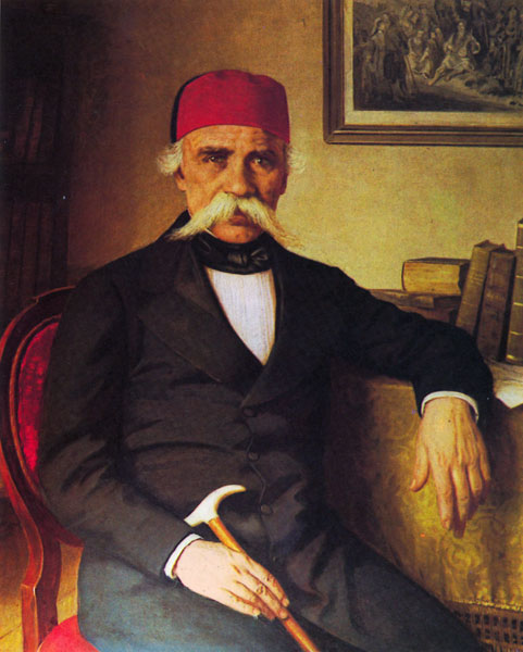 Portrait of Vuk Stefanovic Karadzic